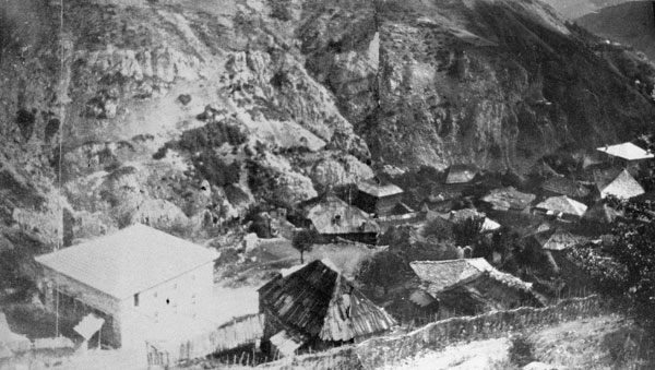 View of the historical village Shtirovica in Mavrovo region, Macedonia. Photo from 1907